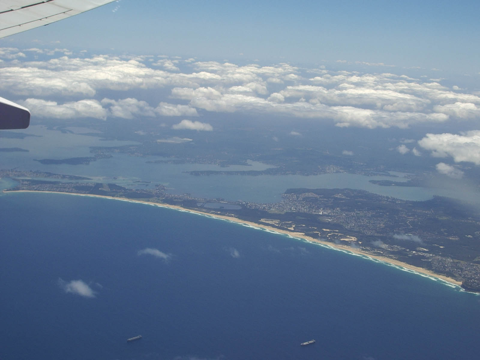 Aerial photograph taken on a flight from Newcastle to Melbourne. Taken by Tim Starling. Pentax Optio S30. The image is a wide view of Lake Macquarie from east of Nine Mile beach.